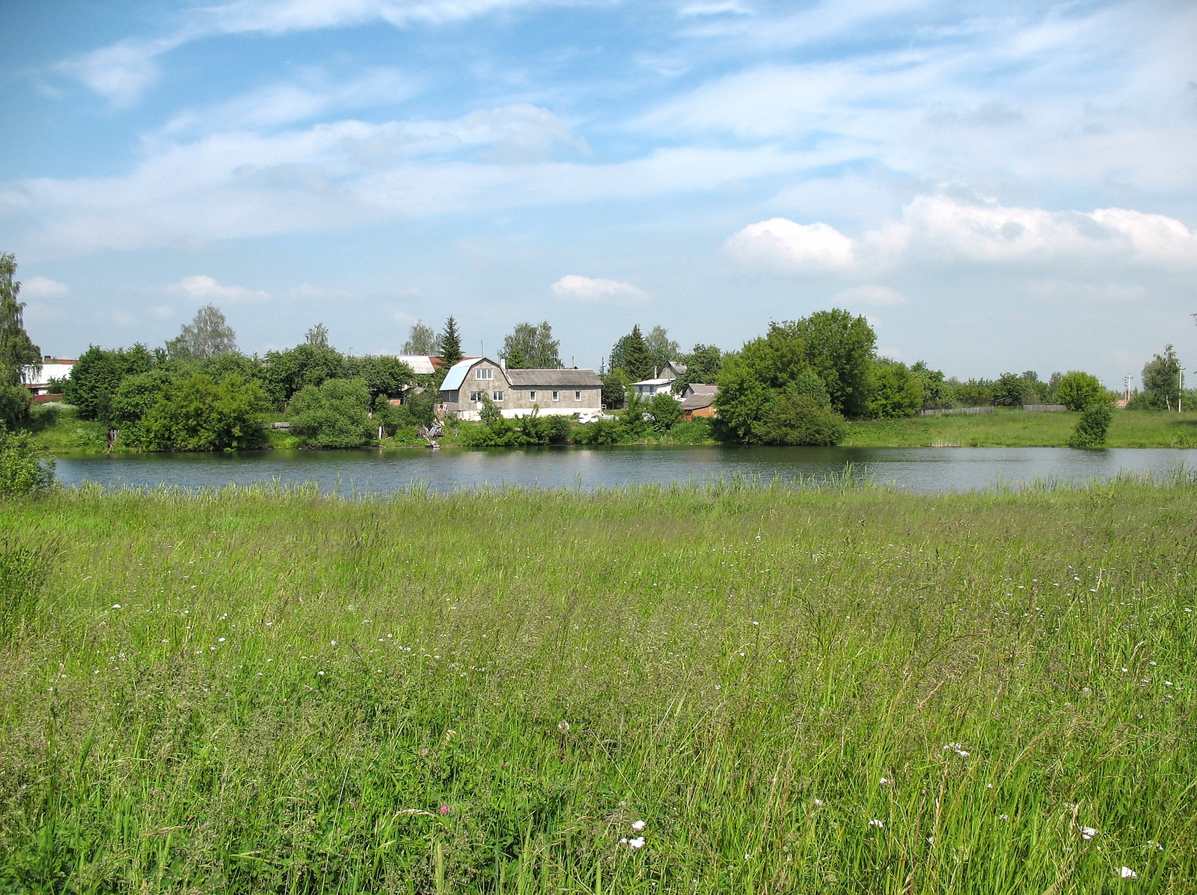 Shchyokino. Pond